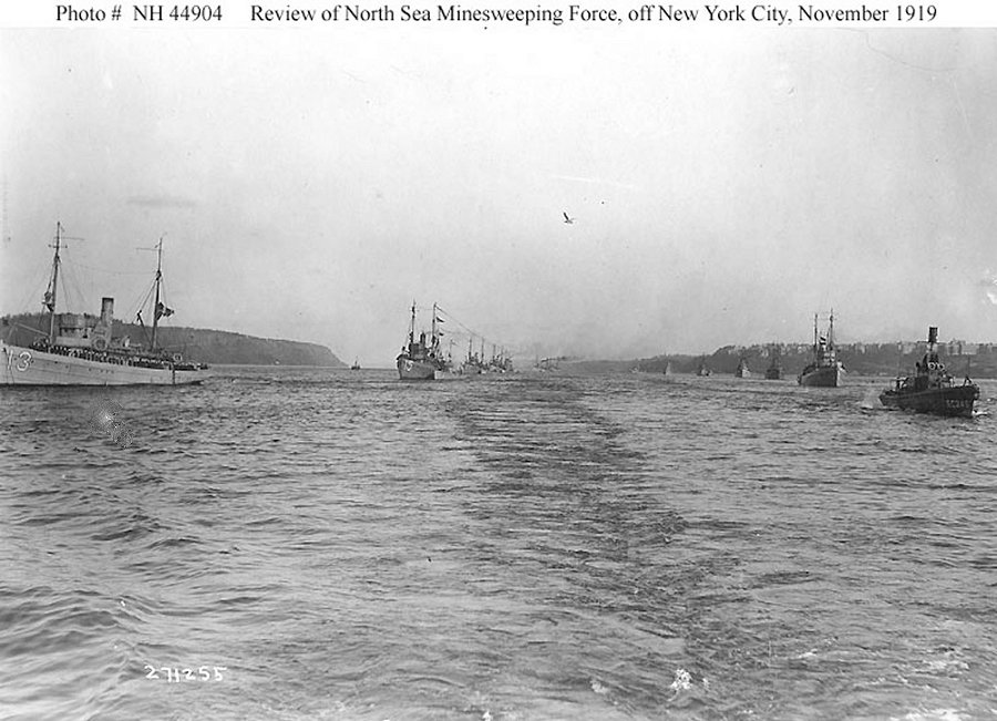 Review of the Atlantic Fleet Minesweeping Squadron, November 1919. Ships of the squadron anchored in the Hudson River, off New York City, while being reviewed by Secretary of the Navy Josephus Daniels on 24 November 1919, following their return to the United States after taking part in clearing the North Sea mine barrage. Identifiable ships present include (left column, from front to rear): USS Turkey (Minesweeper No. 13); USS Quail (Minesweeper No. 15) with SC-354 alongside; USS Lark (Minesweeper No. 21) with SC-208 alongside; USS Swan (Minesweeper No. 34) with SC-356 alongside; and USS Flamingo (AM-32) (Minesweeper No. 32) with an unidentified submarine chaser alongside. (right column, from front to rear): USS Thrush (Minesweeper No. 18); Two unidentified minesweepers, one of which is probably USS Lapwing (Minesweeper No. 1); USS Kingfisher (Minesweeper No. 25); and, in no particular order, tugs Patapsco and Patuxent. USS SC-245 is at the far right, passing between the two anchored columns. U.S. Navy photo NH 44904 Note: USS Flamingo (AM-32) renamed as USS Viking (ARS-1).